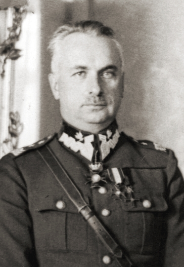 General Kazimierz Sosnkowski (1885-1962)